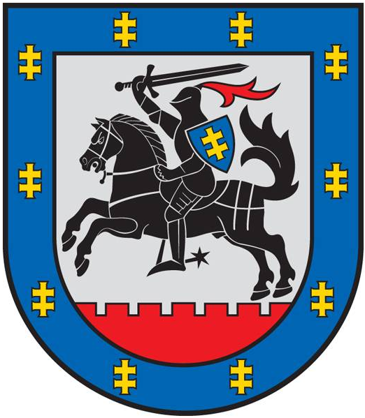 Coat of arms of Panevėžys County, Lithuania